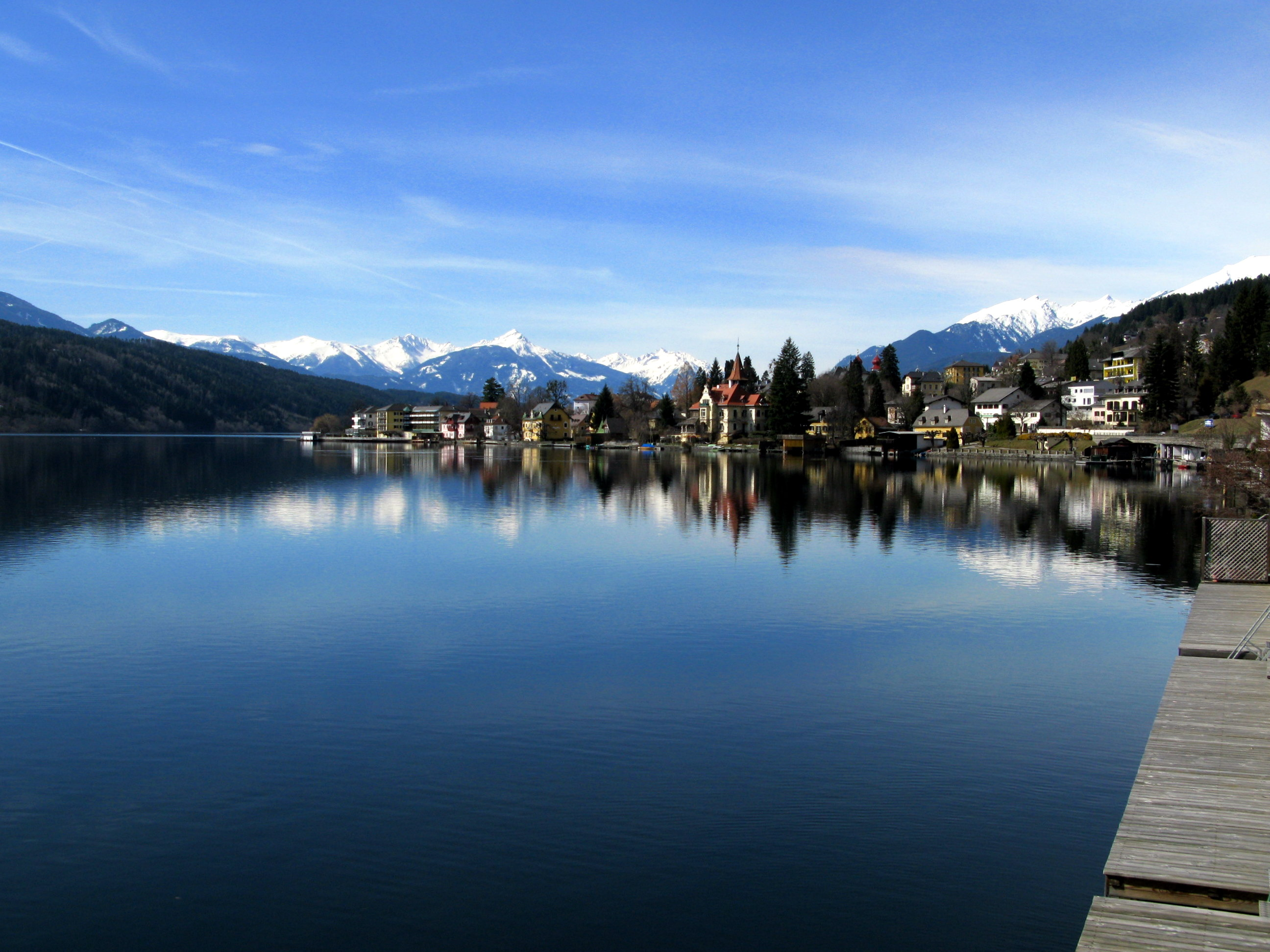 Millstatt at Millstätter See in Carinthia / Austria / EU. The prominent peak in the middle is the Salzkofel (2.458 m). Brief description: blue sky, blue water, lake in the alps, Central Europe.